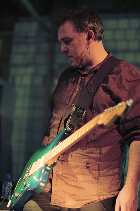 Robin Guthrie performing at Art Parade on 19 October 2008.